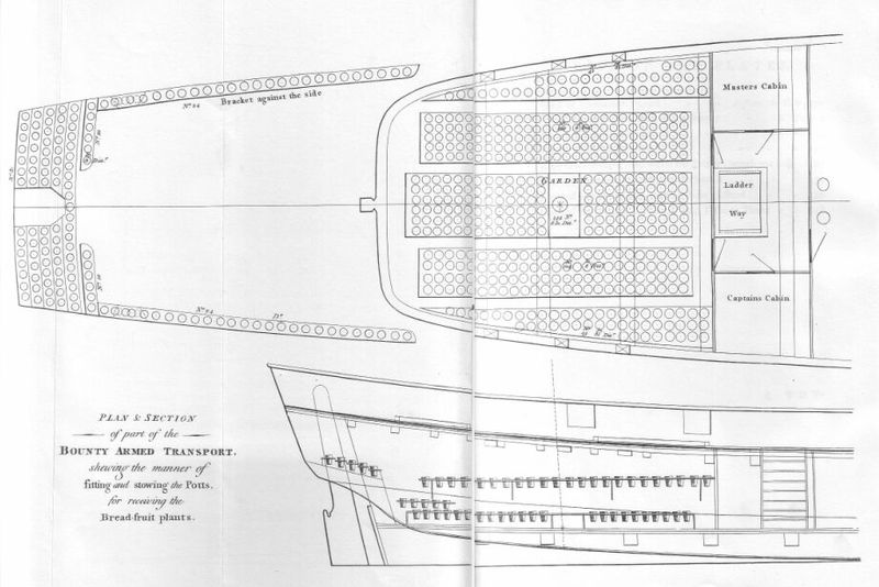 Bounty Armed Transport illustrated in William Bligh's 1792 A Voyage to the South Sea, undertaken by command of His Majesty, for the purpose of conveying the bread-fruit tree to the West Indies, in his majesty's ship the Bounty, commanded by Lieutenant William Bligh. Including an account of the Mutiny on board the said ship, and the subsequent voyage of part of the crew, in the ship's boat, from Tofoa, one of the friendly islands, to Timor, a Dutch settlement in the East Indies. The whole illustrated with charts, etc. From